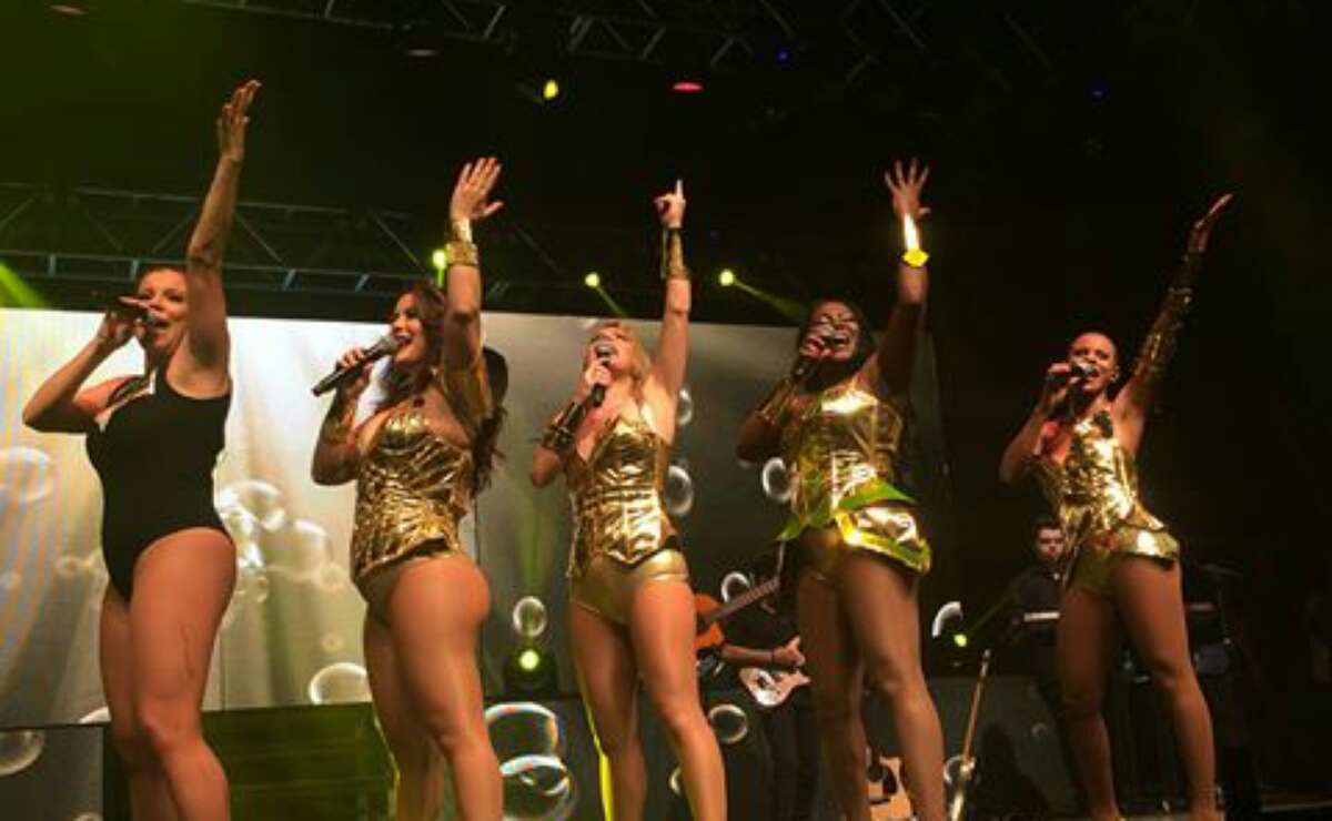 Rouge na turnê Rouge 15 Anos.